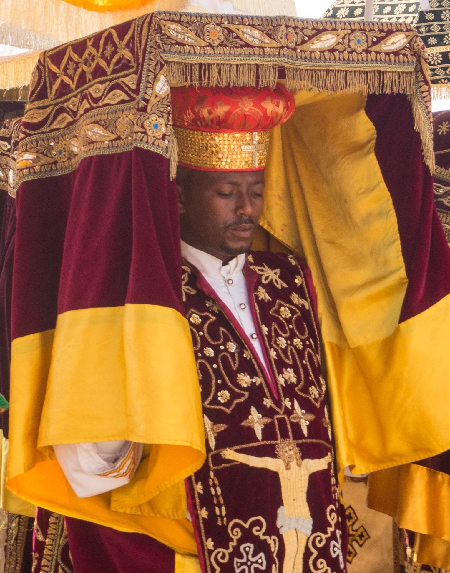 Orthodox priests carrying Tabots in 2015 Timkat ceremony in Jan Meda, Addis Ababa, Ethiopia